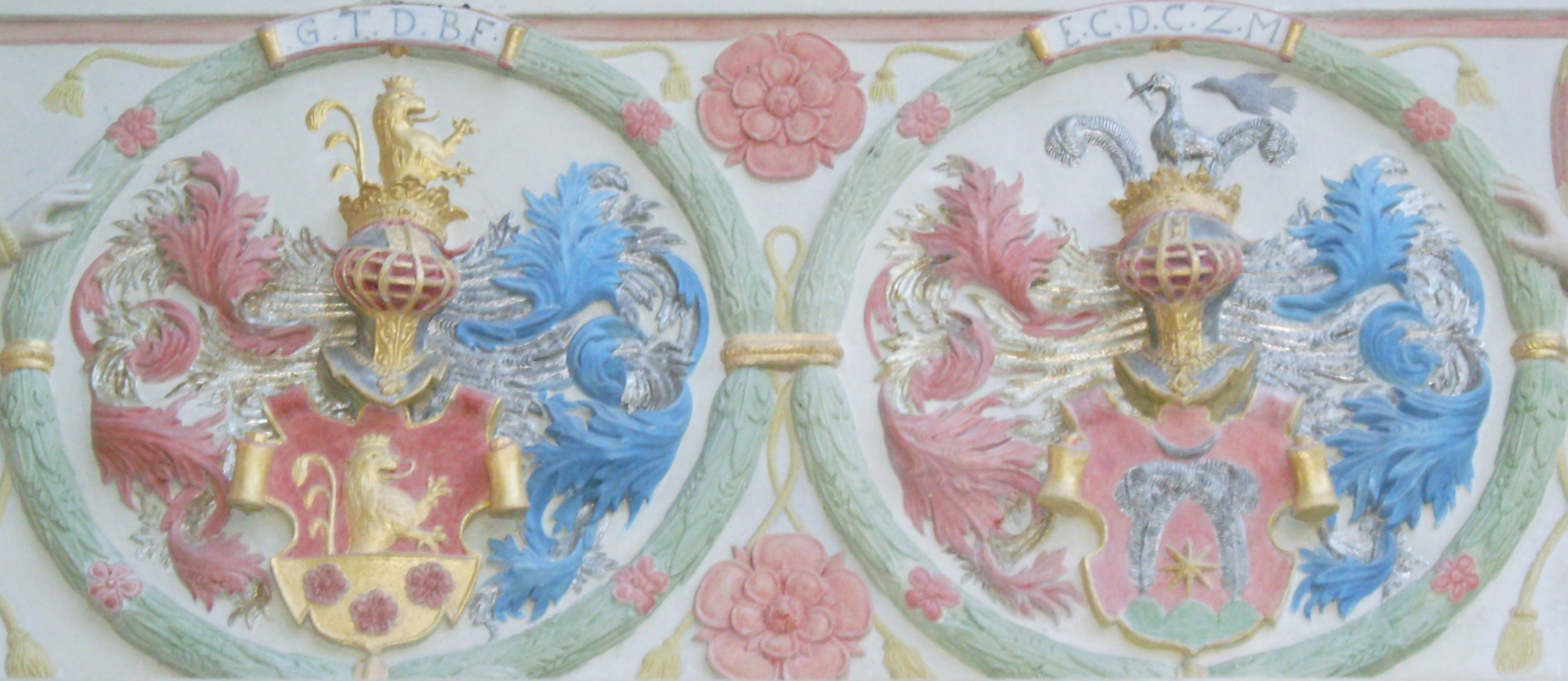 Coats of arms of György Thurzó and Erzsébet Czobor. Portal of Wedding Palace in Bytča.